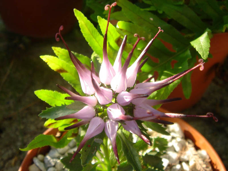 Physoplexis comosa